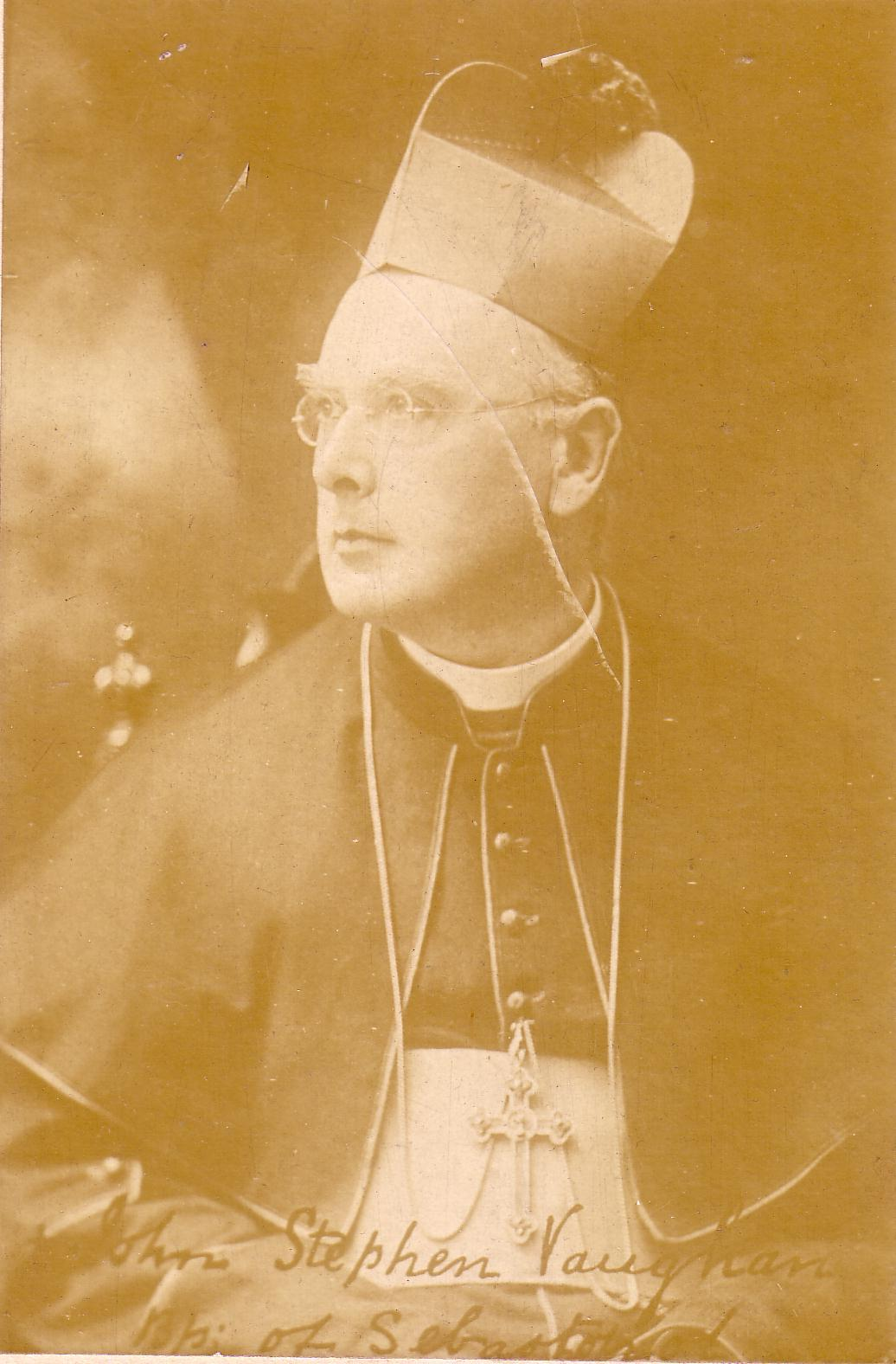 Auxiliary Bishop of Salford, John Stephen Vaughan (1853-1925)